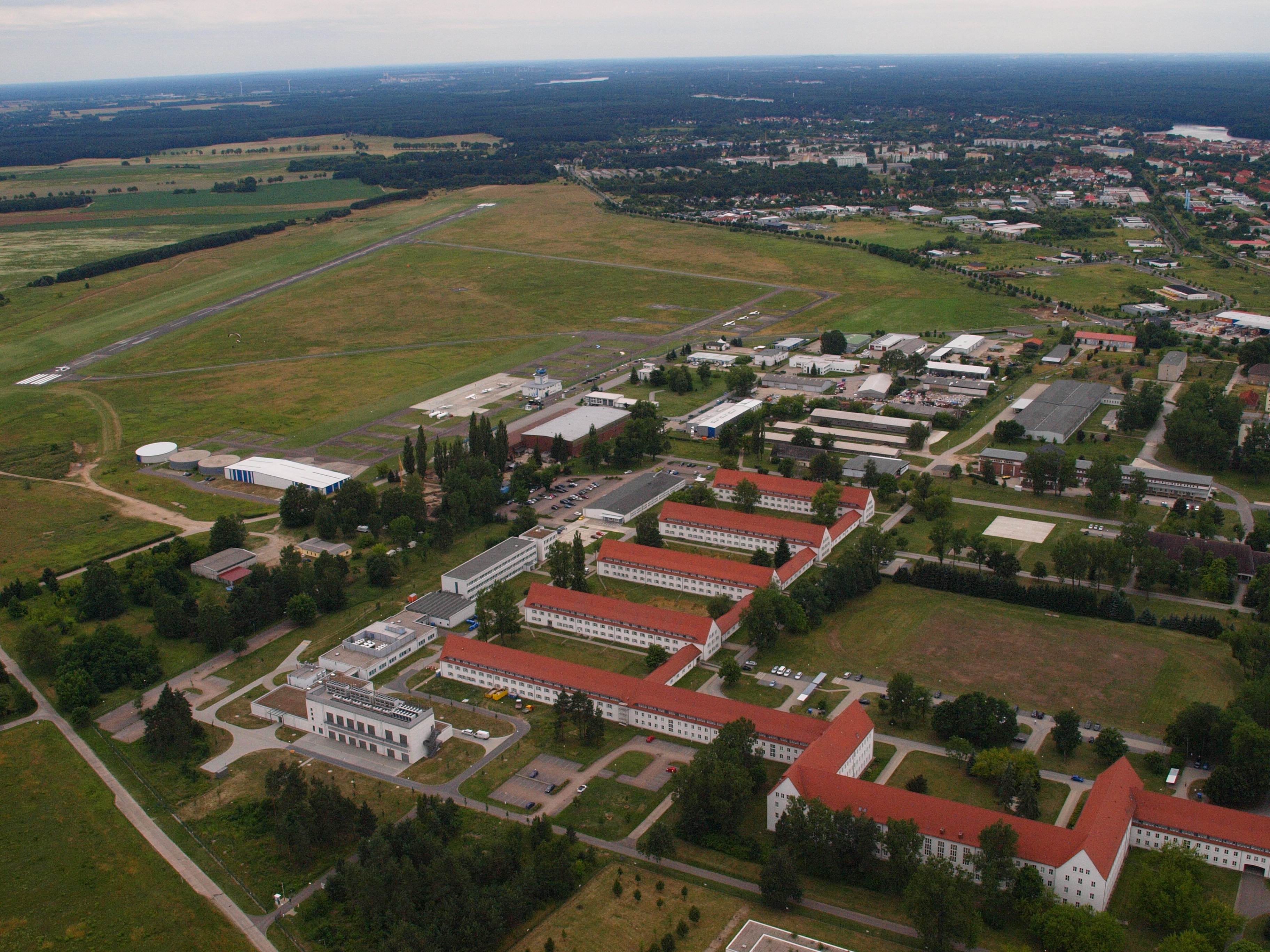 Von-Hardenberg-Kaserne in Strausberg with the Airport Strausberg (air picture from northern direction).